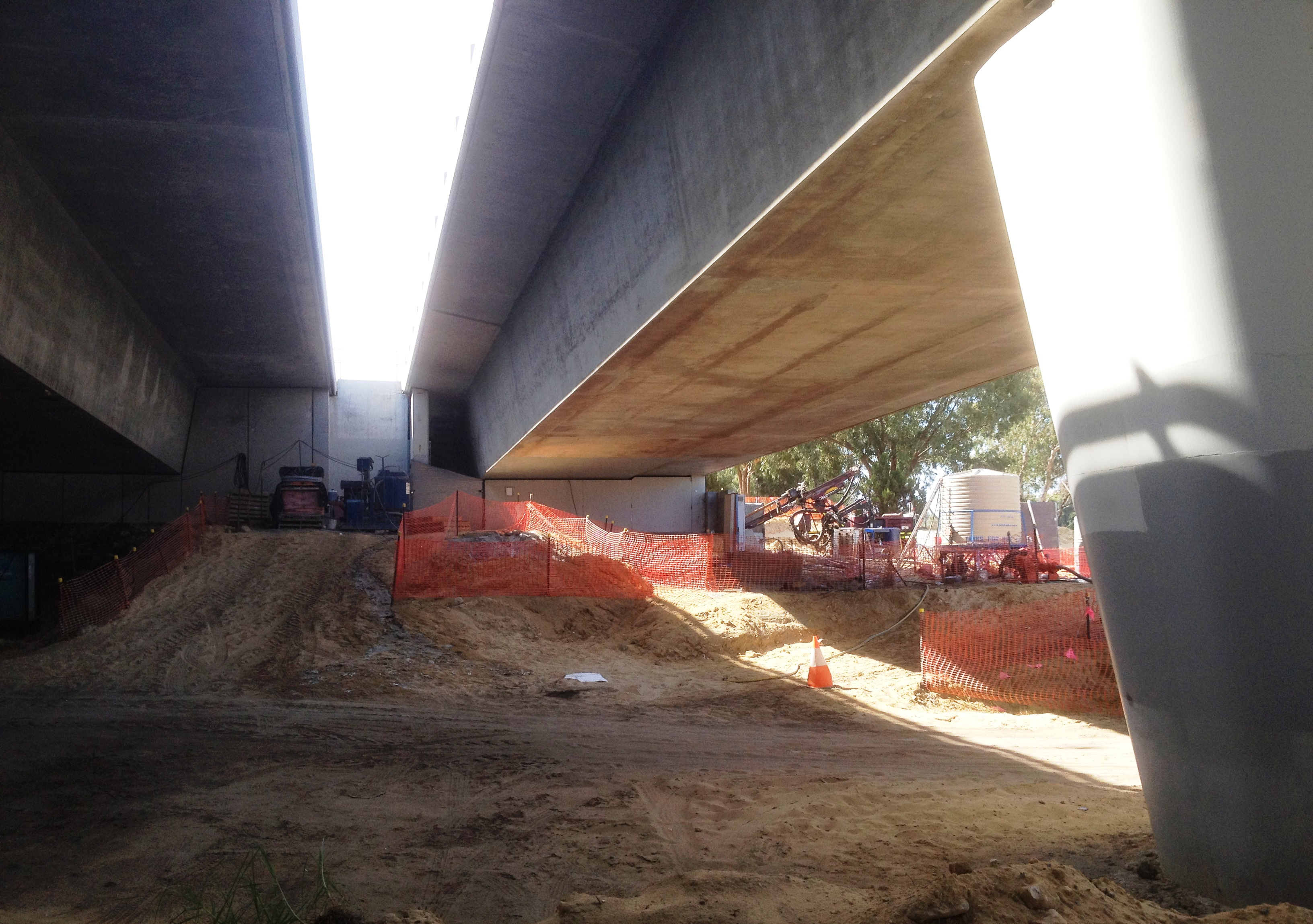 Goongoonup Bridge repairs